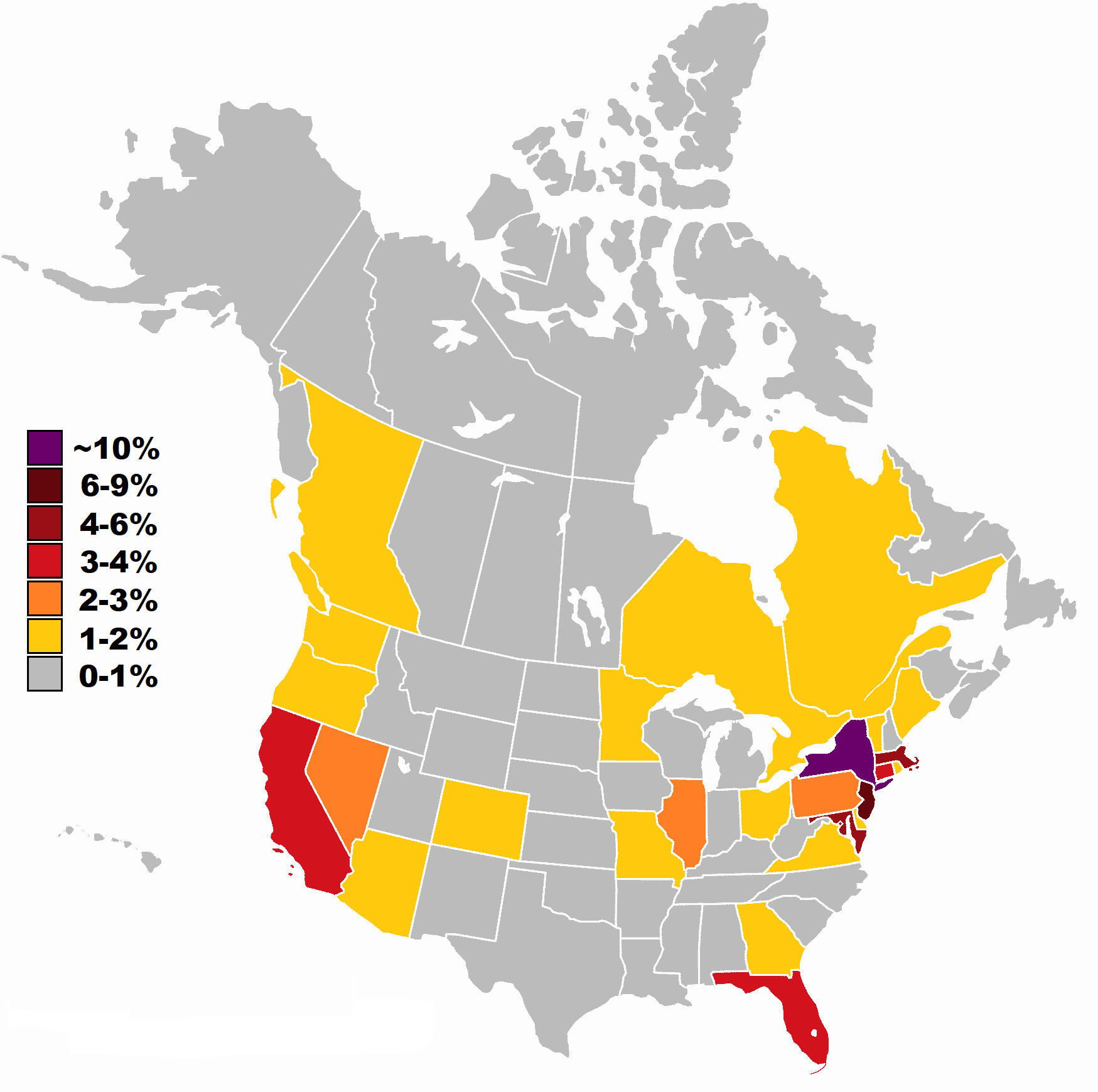 Jewish population in the USA and Canada, 2016. Legend: Over 9% 6% - 9% 4% - 6% 3% - 4% 2% - 3% 1% - 2% below 1%